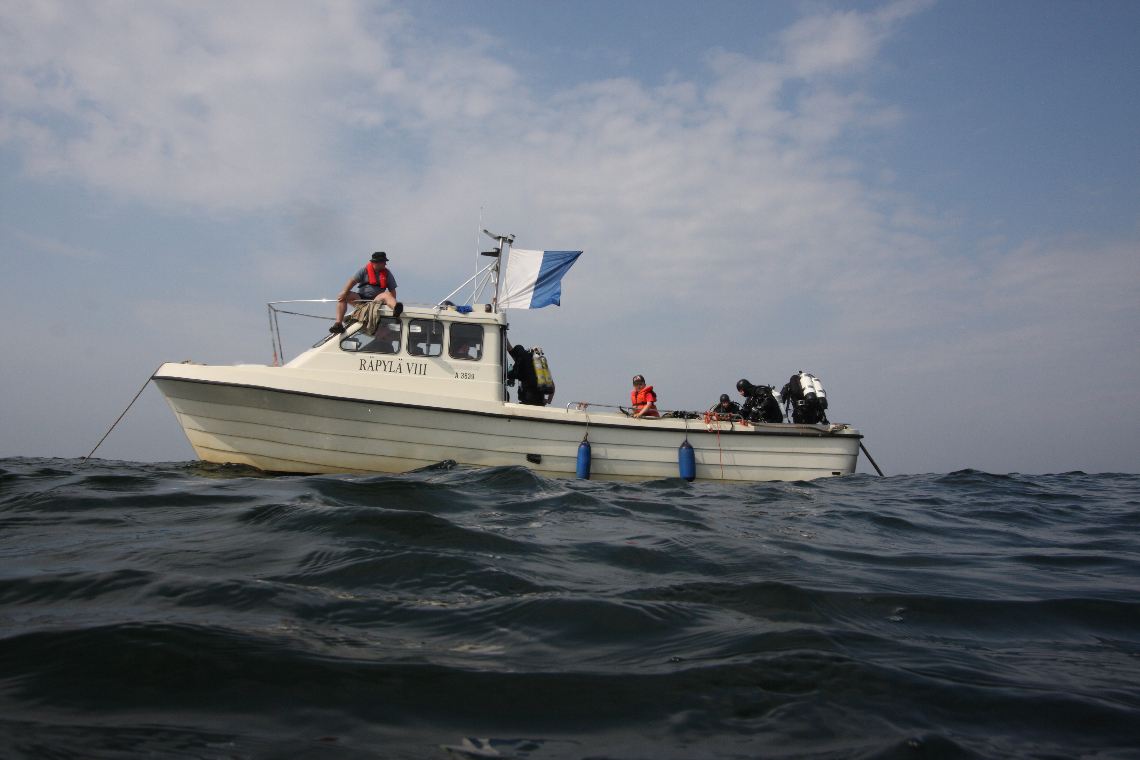 Urheilusukeltajat ry dive club boat Räpylä 8.